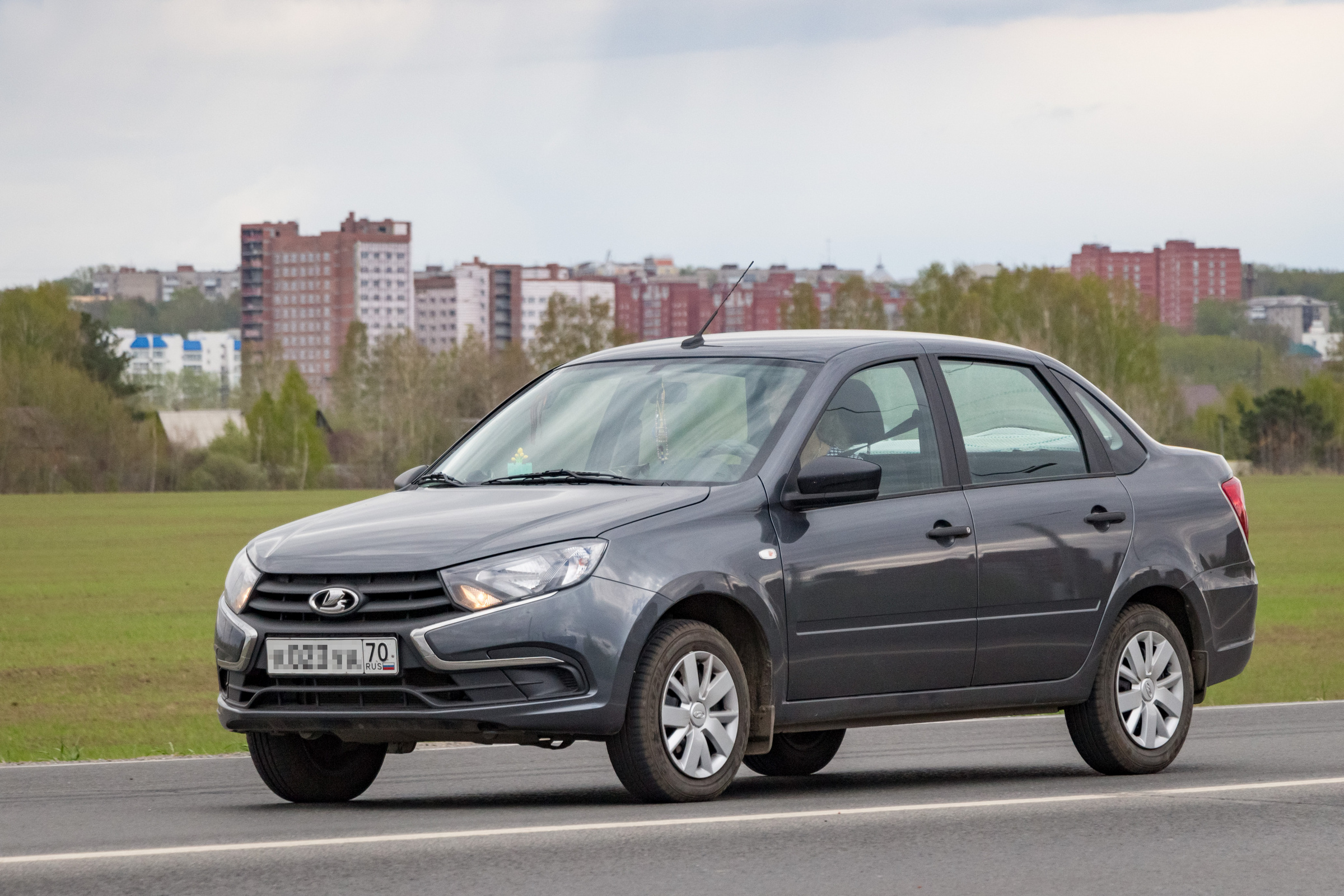 Lada Granta (2018 facelift) in Tomsk, Russia